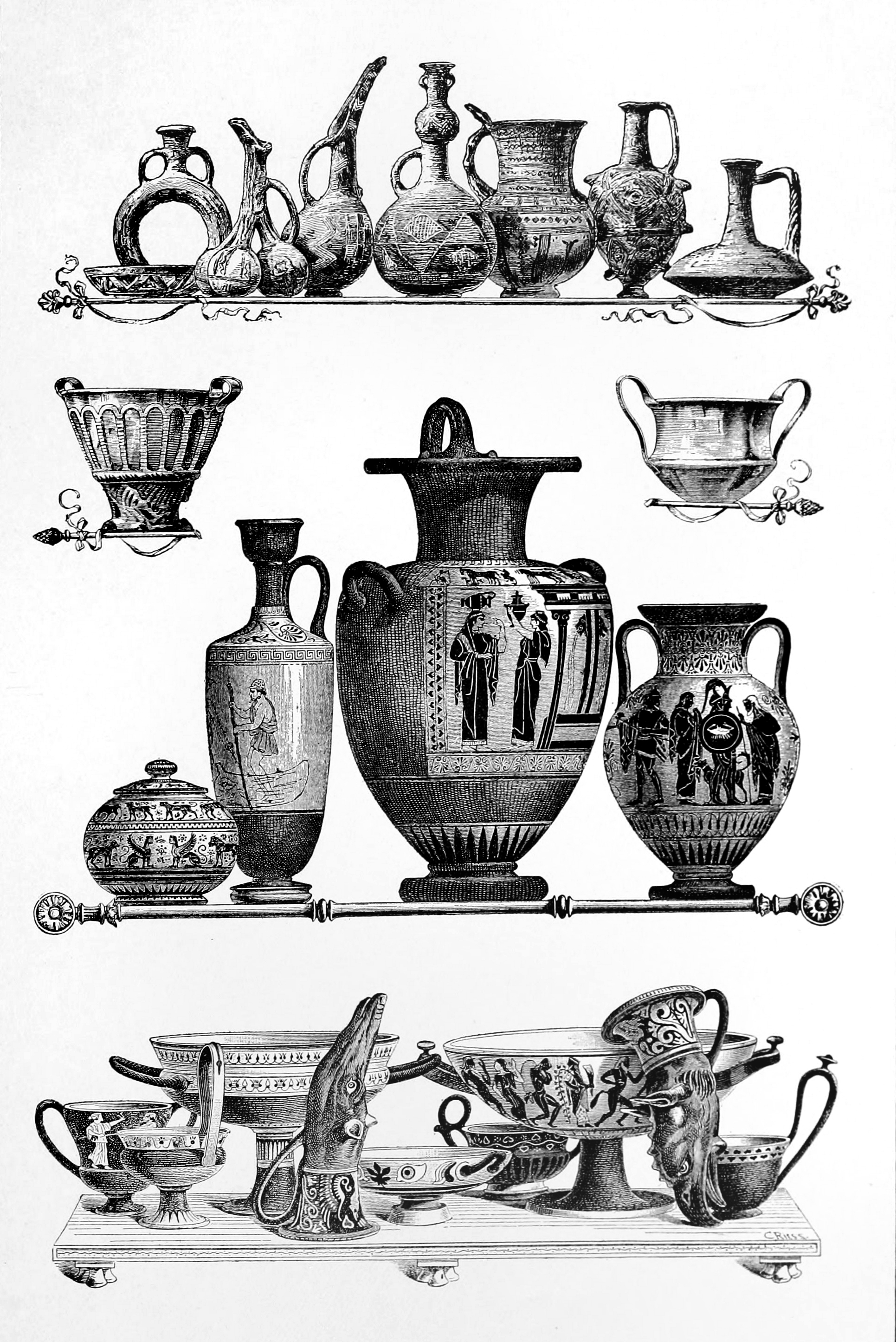 Art relics from the Ionian cities of Asia